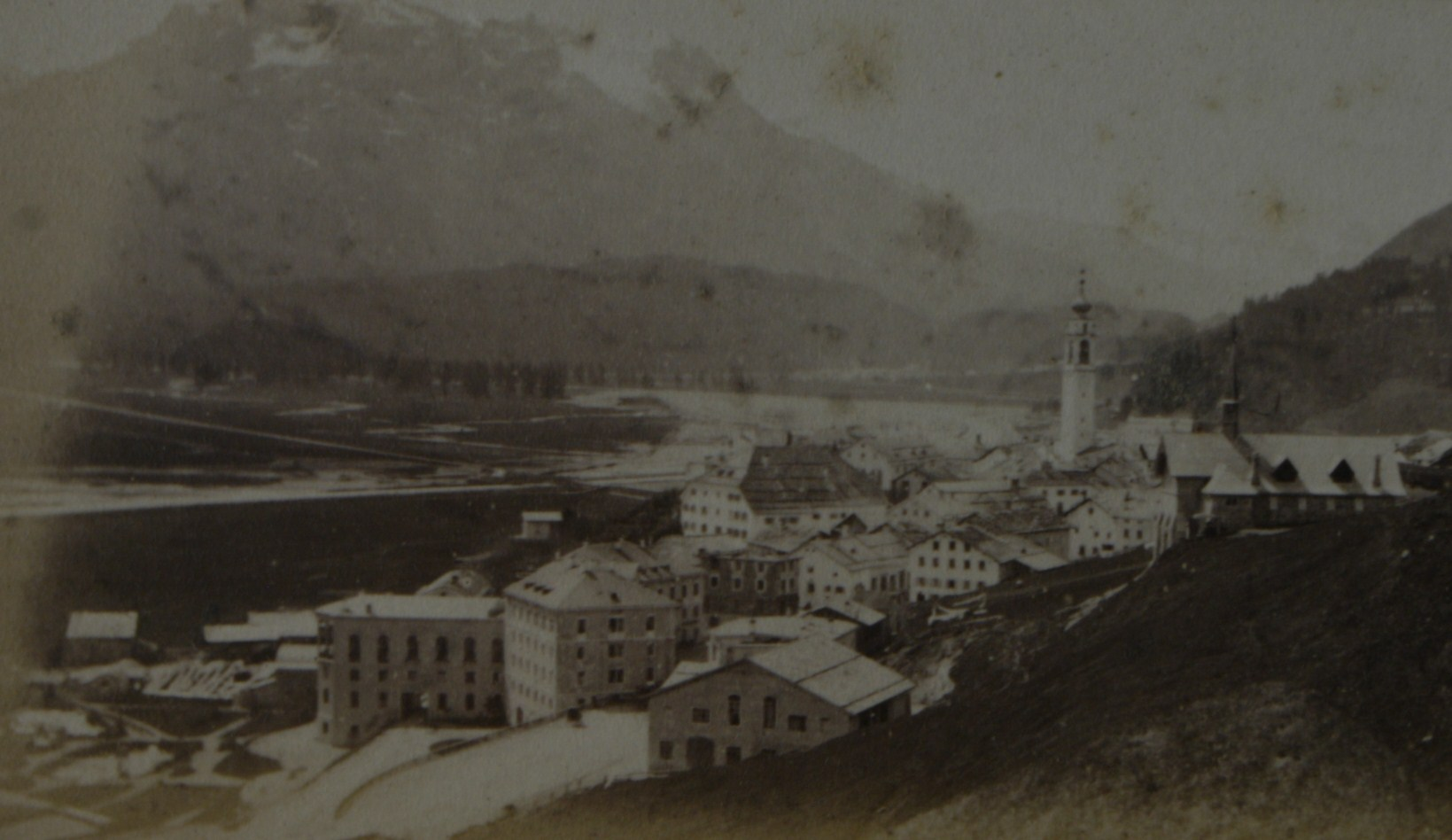 My photo (Rodolph de Salis-Soglio (talk) 00:46, 11 August 2013 (UTC)) of a photograph of Samedan taken in the circa 1870s.